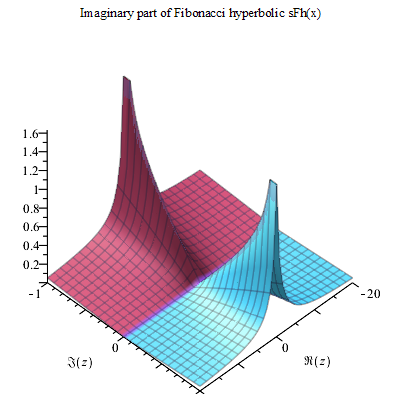 Fibonacci hyperbolic arcsine imaginary part 3D plot